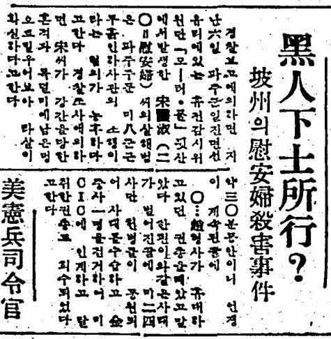 Murder of Comfort women in Paju, South Korea.